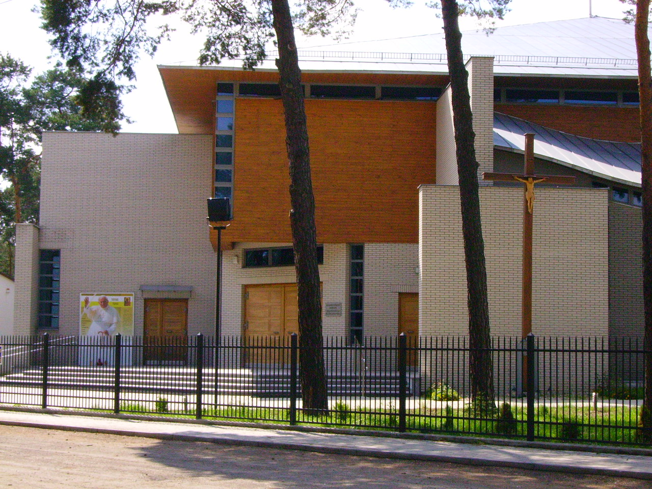 Saint John the Baptist Church in Józefów, Otwock County, Poland.